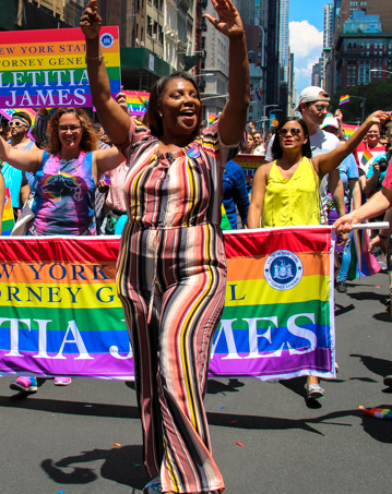 New York Pride 50 - 2019-348